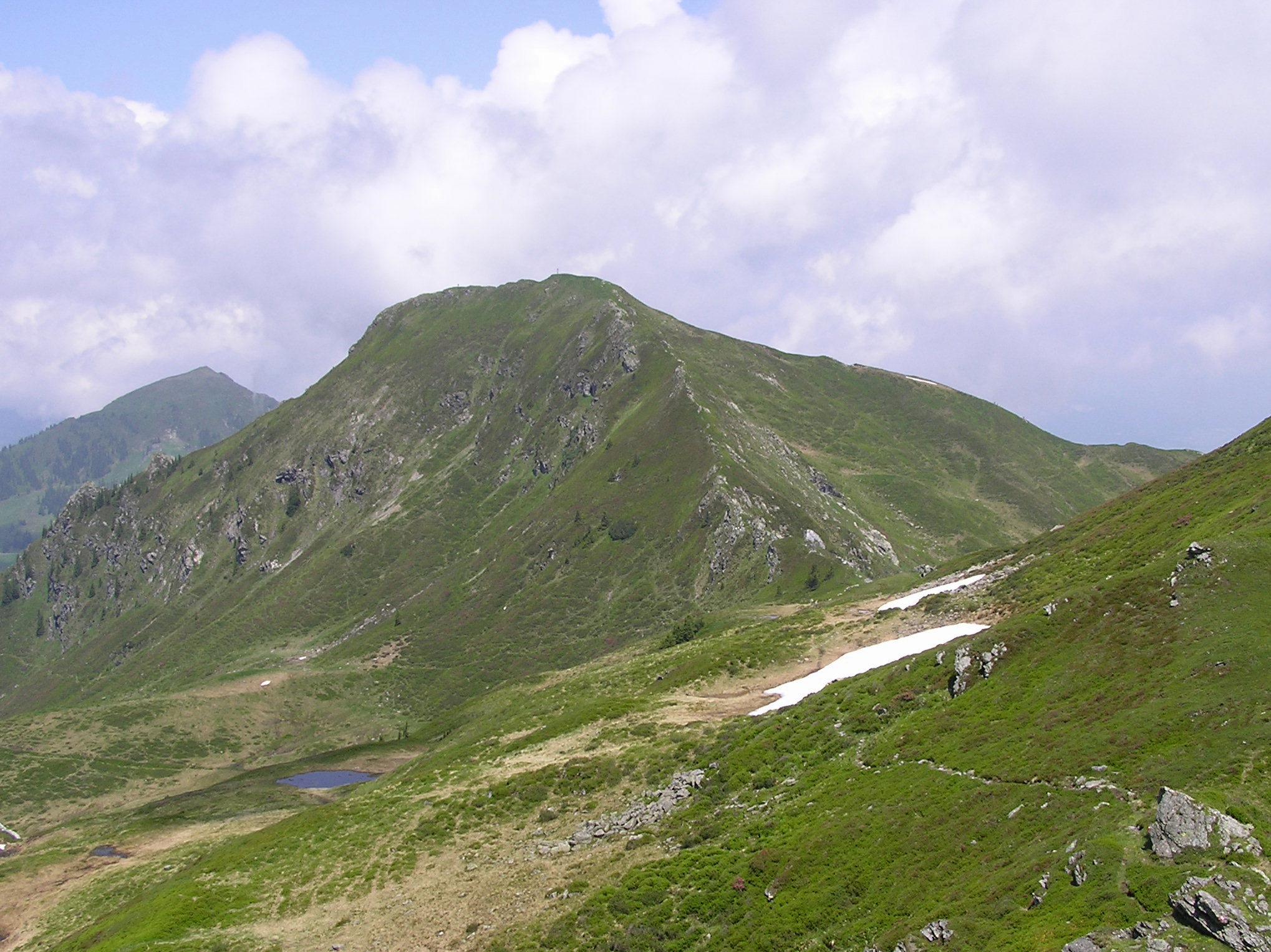 The Brechhorn in the austrian Alps seen from south